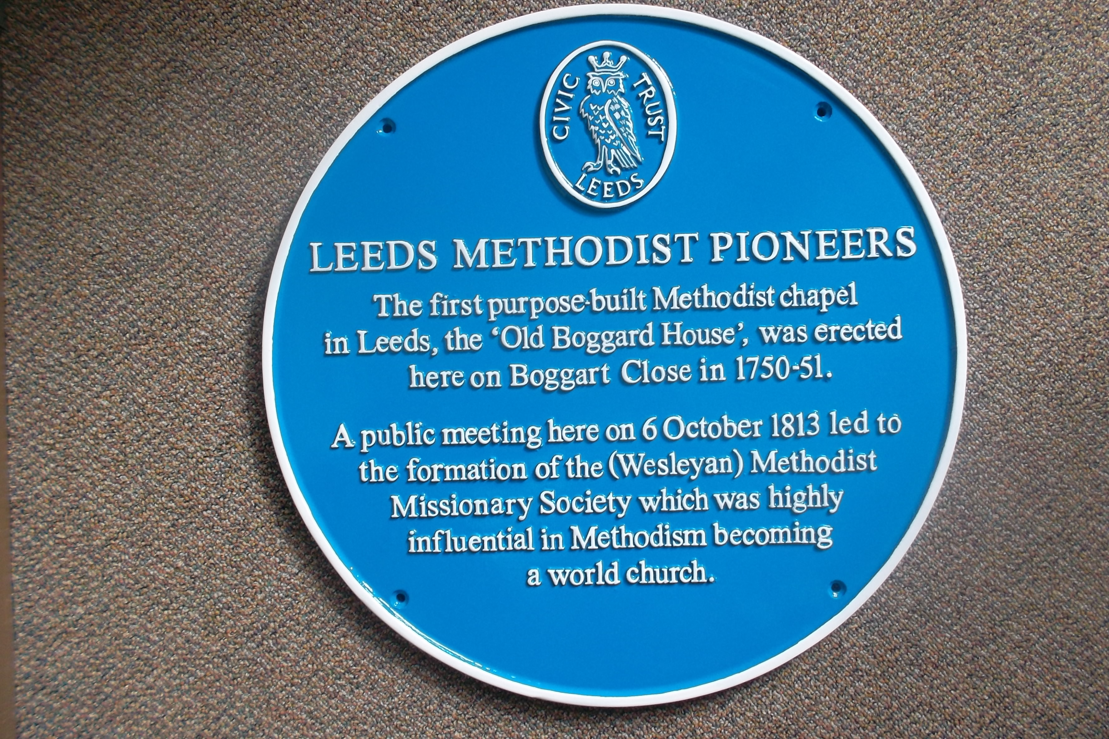 Plaque adjacent to the West Yorkshire Playhouse Quarry Hill Leeds2